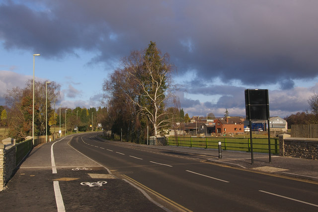 New Burway Bridge. See 1192494. This is the replacement bridge, opened on 16 January 2009.